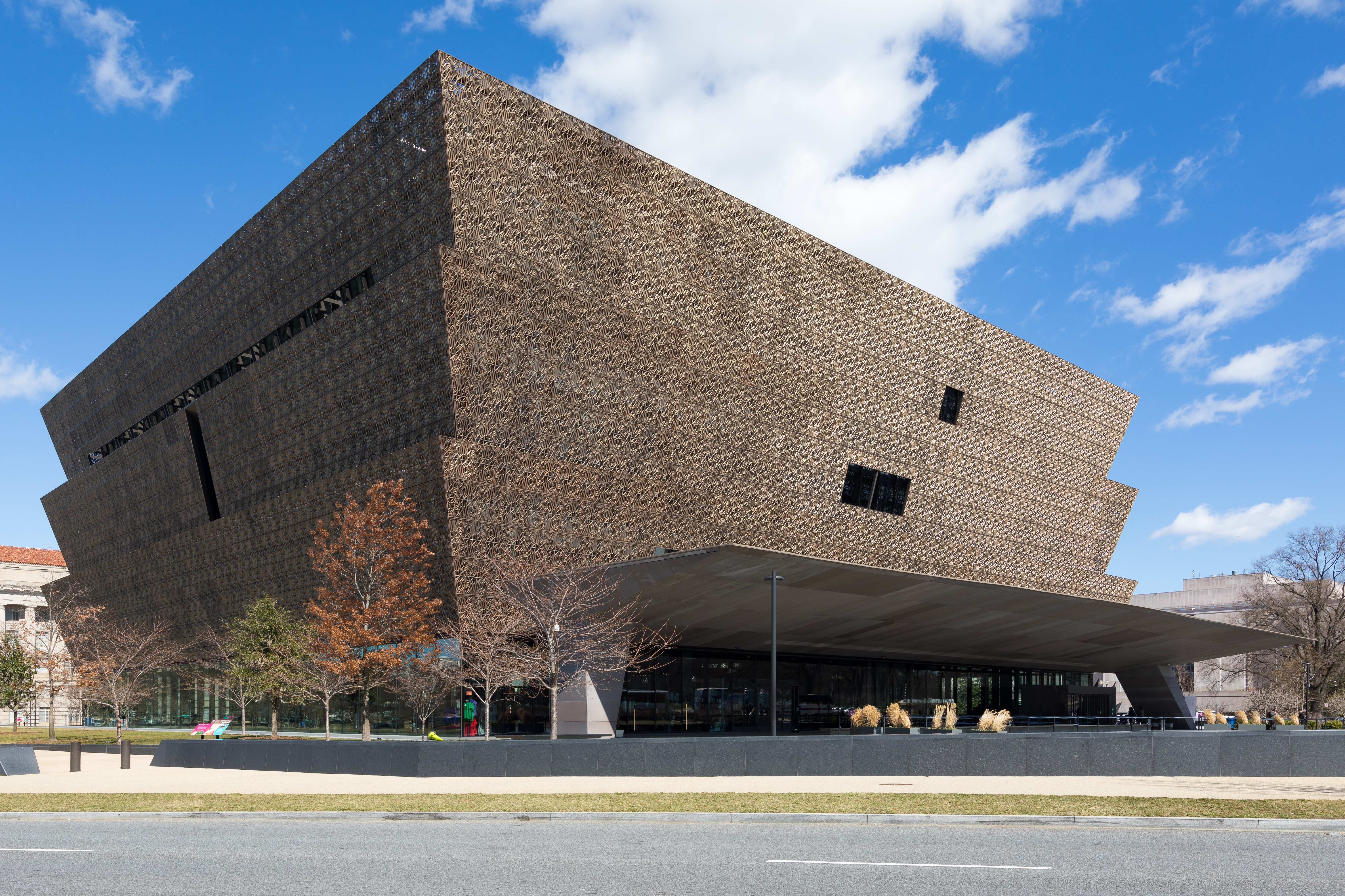 The exterior of the National Museum of African American History and Culture in Washington, D.C., on February 27, 2020, as seen from 15th Street NW